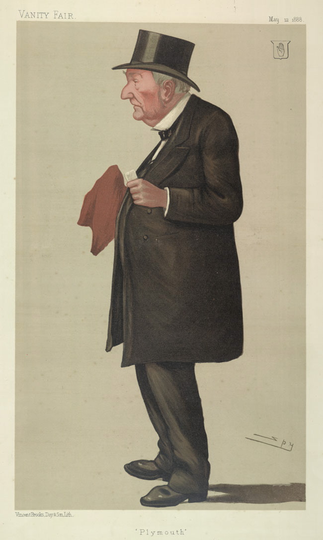 Statesmen No.543: Caricature of Sir Edward Bates Bt MP. Caption reads: "Plymouth"